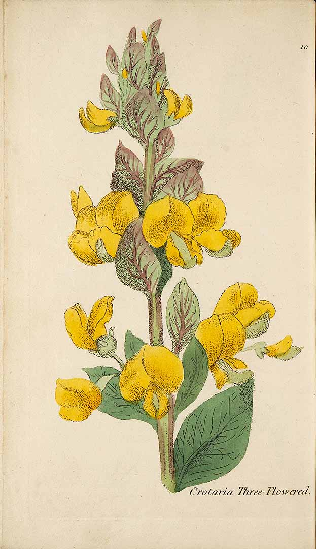 Rafnia triflora Thunb. (= Crotalaria triflora L.)